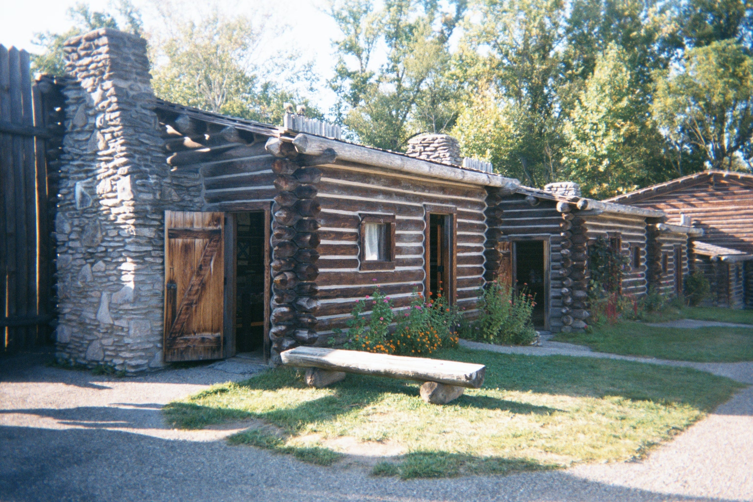 Fort Boonesborough (reconstruction) in Madison County Kentucky as by end September 2001